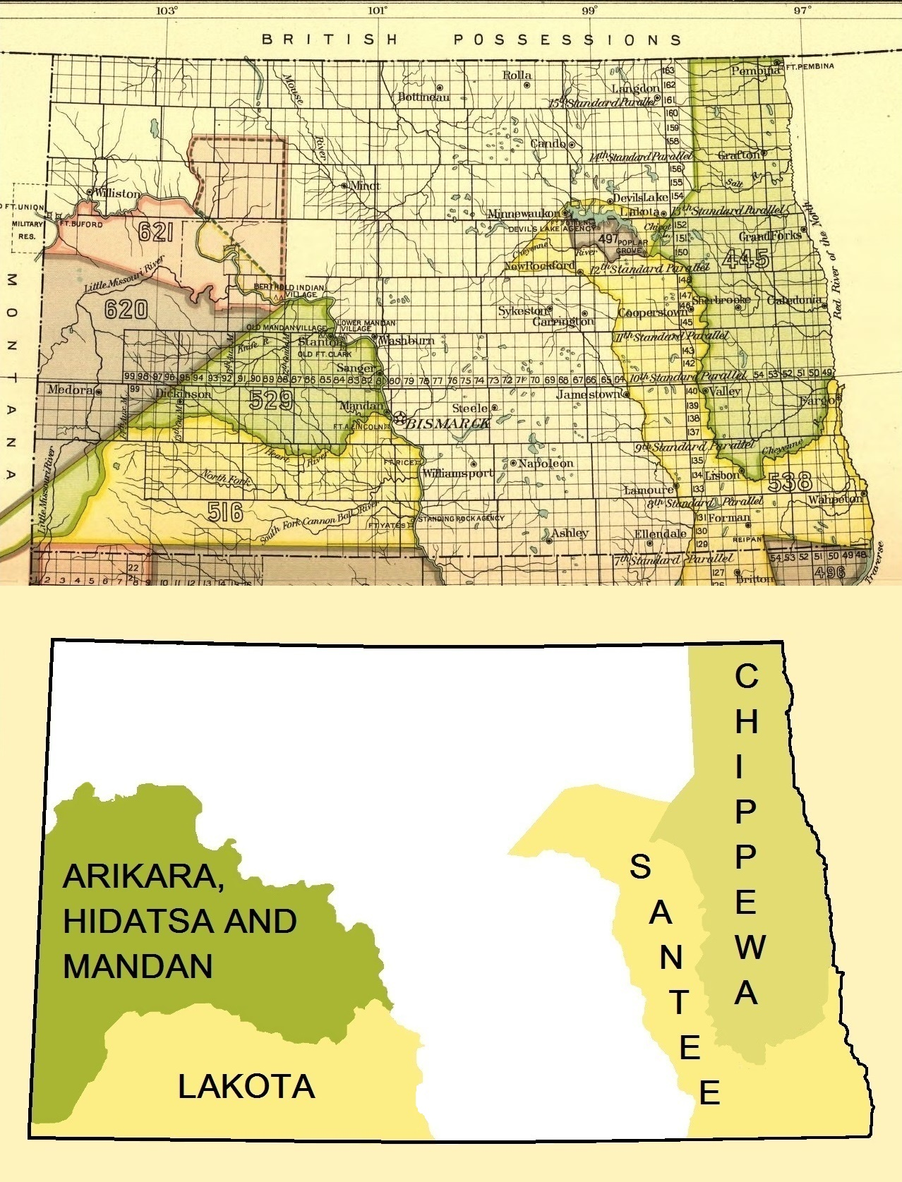 Early Indian treaty territories, North Dakota. Map and overview